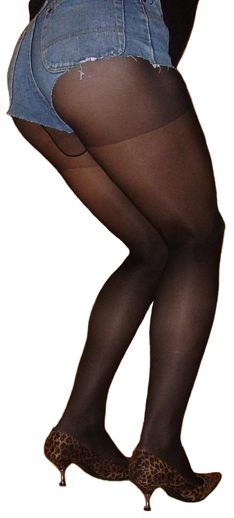 a woman wearing hot-pants (cut-offs)